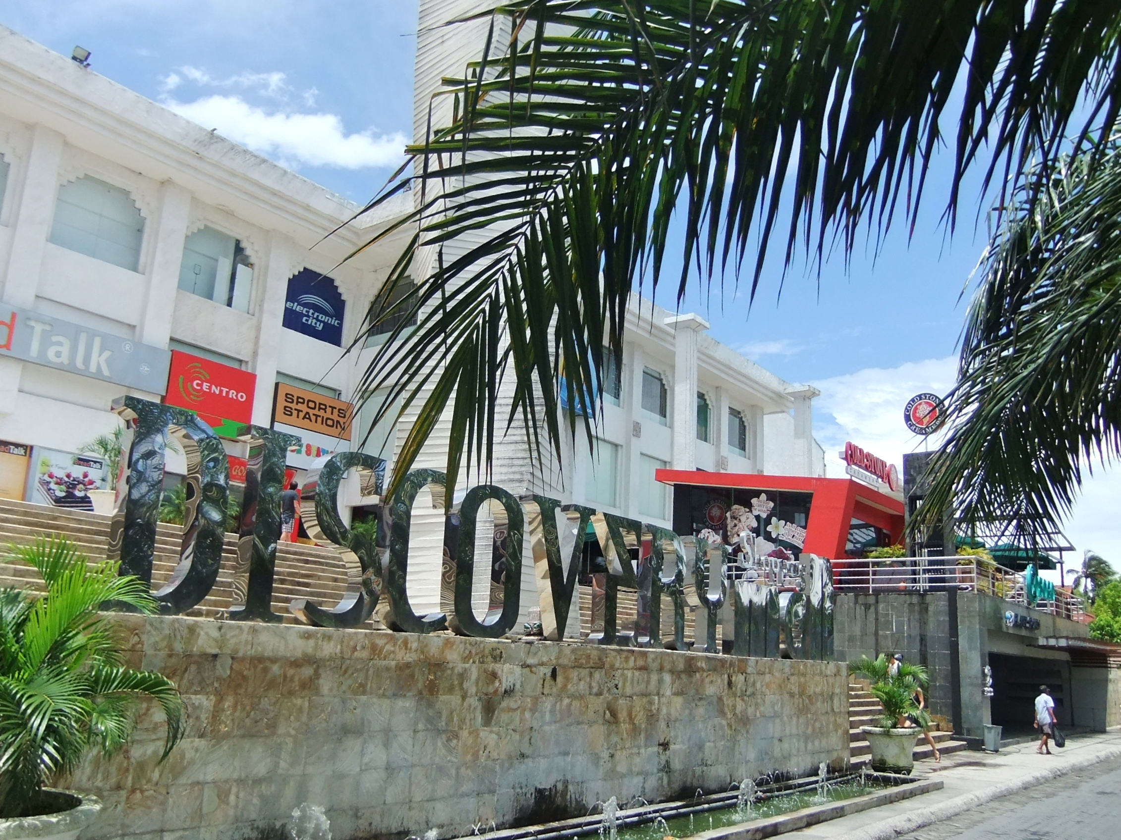 Discovery Mall, Kuta, Bali